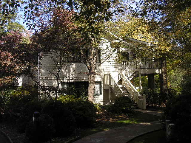 Morningside